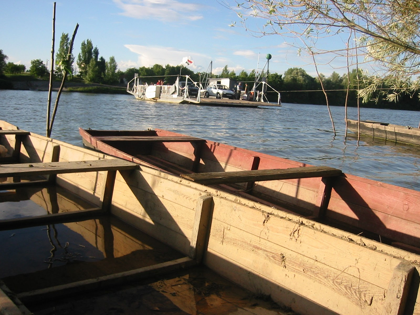 Cable ferry on the river Tisza between Tiszatardos and Tiszalök, Hungary, with skiffs in the foreground.